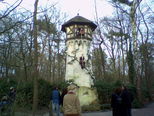 Rapunzel in the Fairy Tale Forest (Efteling)